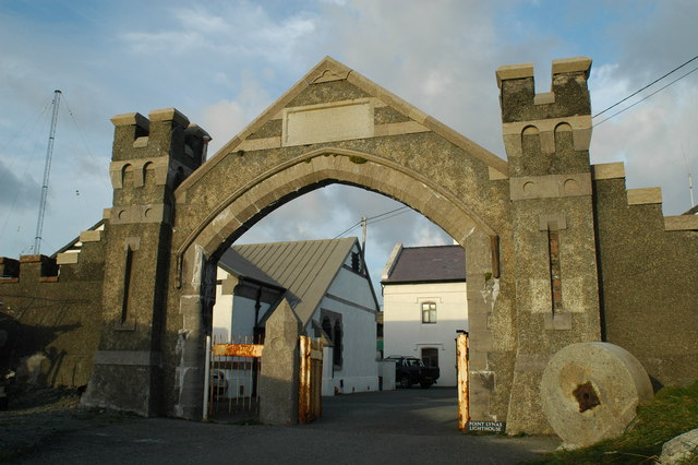 Gateway to Point Lynas Lighthouse